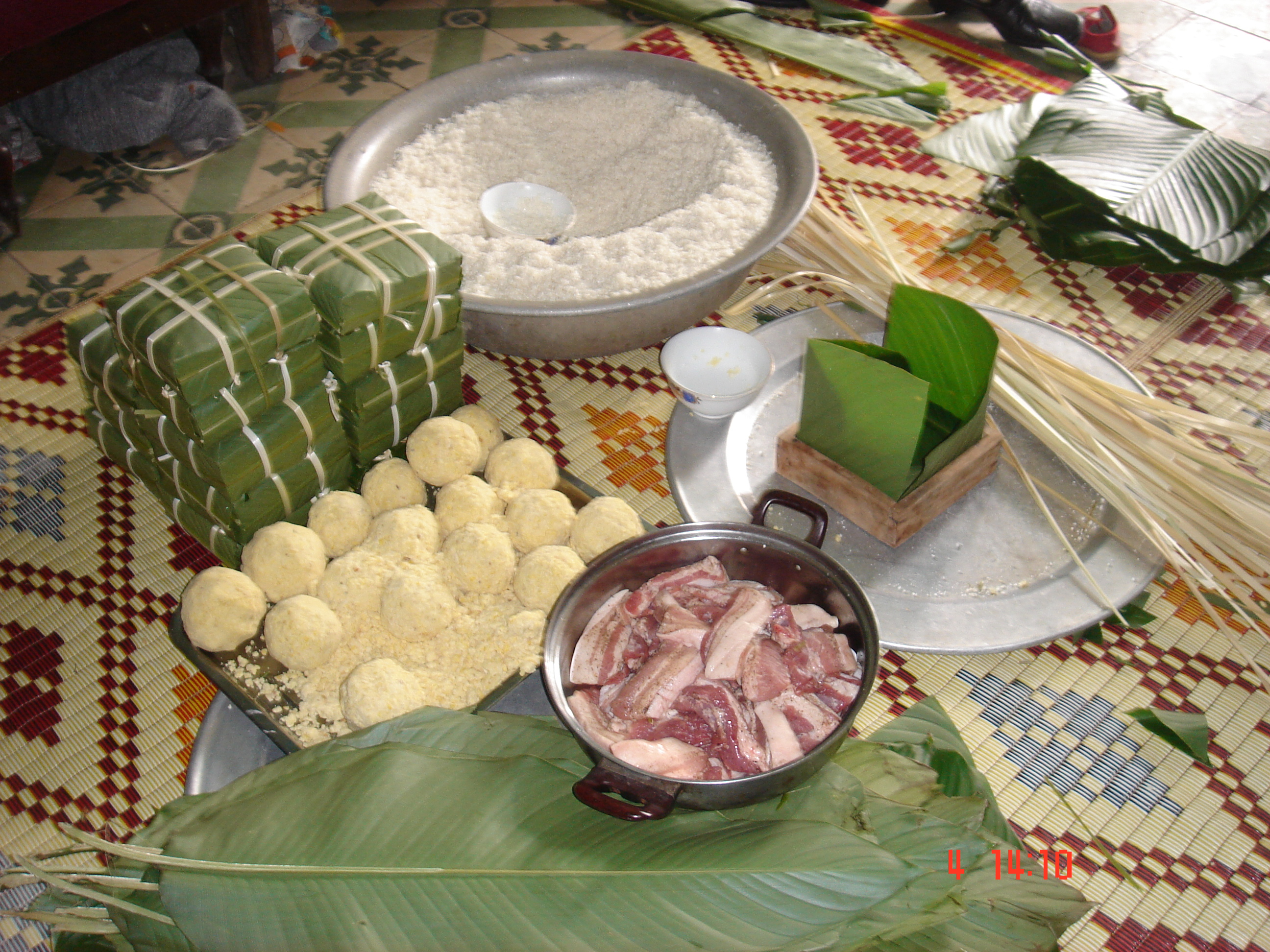 Ingredient of bánh chưng